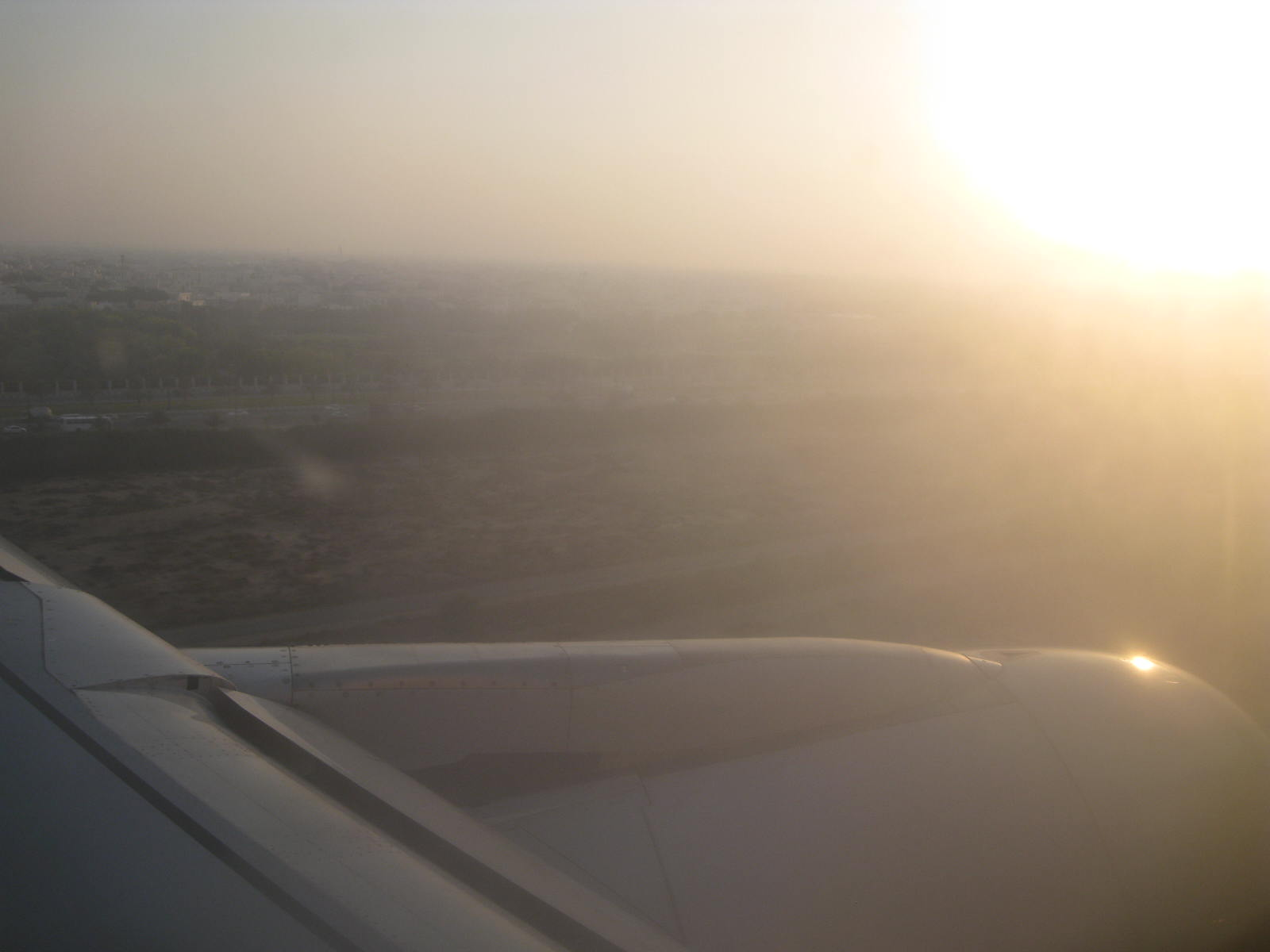 Sharjah International Airport